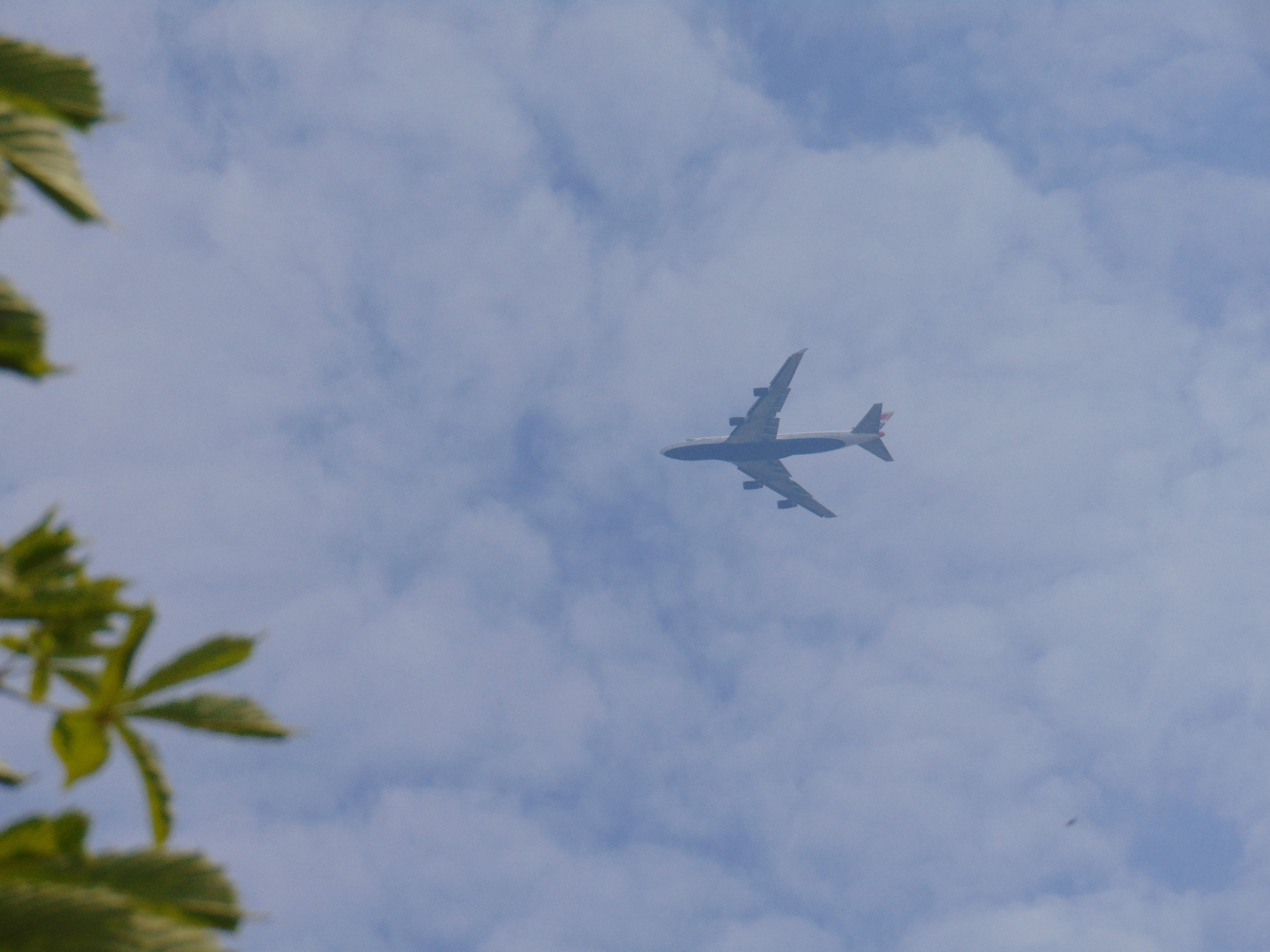 A Boeing 747-400 of British Airways climbs over Bray Lock after departing from London Heathrow. Aircraft departing from and arriving at Heathrow appear to use the River Thames as a guideline for a significant amount of the route in and out of the airport, as planes can regularly be seen in flight throughout the day from this location.